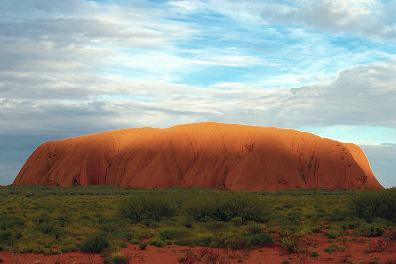 Northern Territory, Australia, Uluṟu-Kata Tjuṯa National Park, Uluru / Ayers Rock at sunset